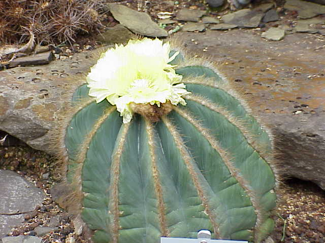 Species: Parodia magnifica Family: Cactaceae Image No. 2